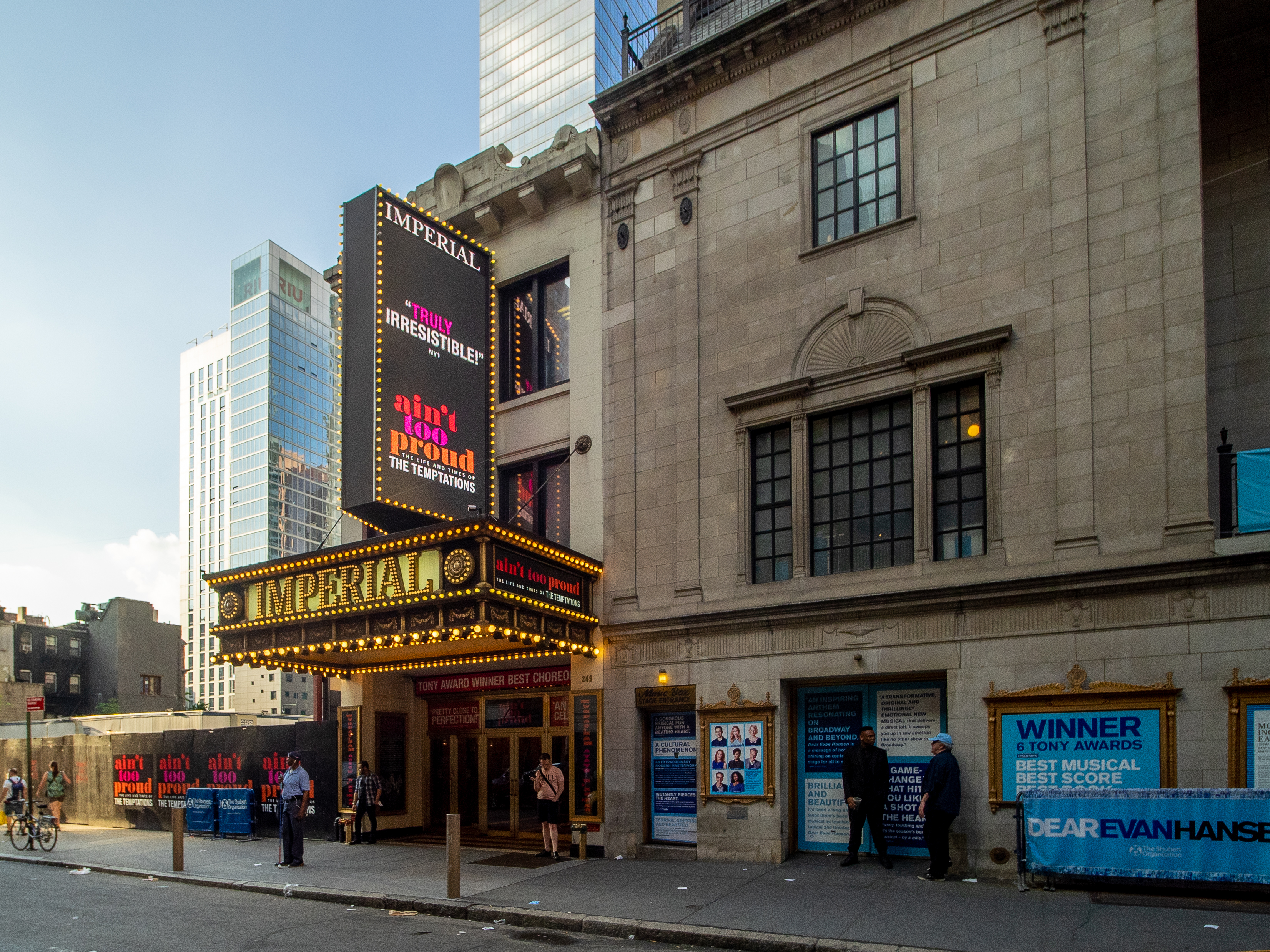 Theater District, Midtown Manhattan, NYC